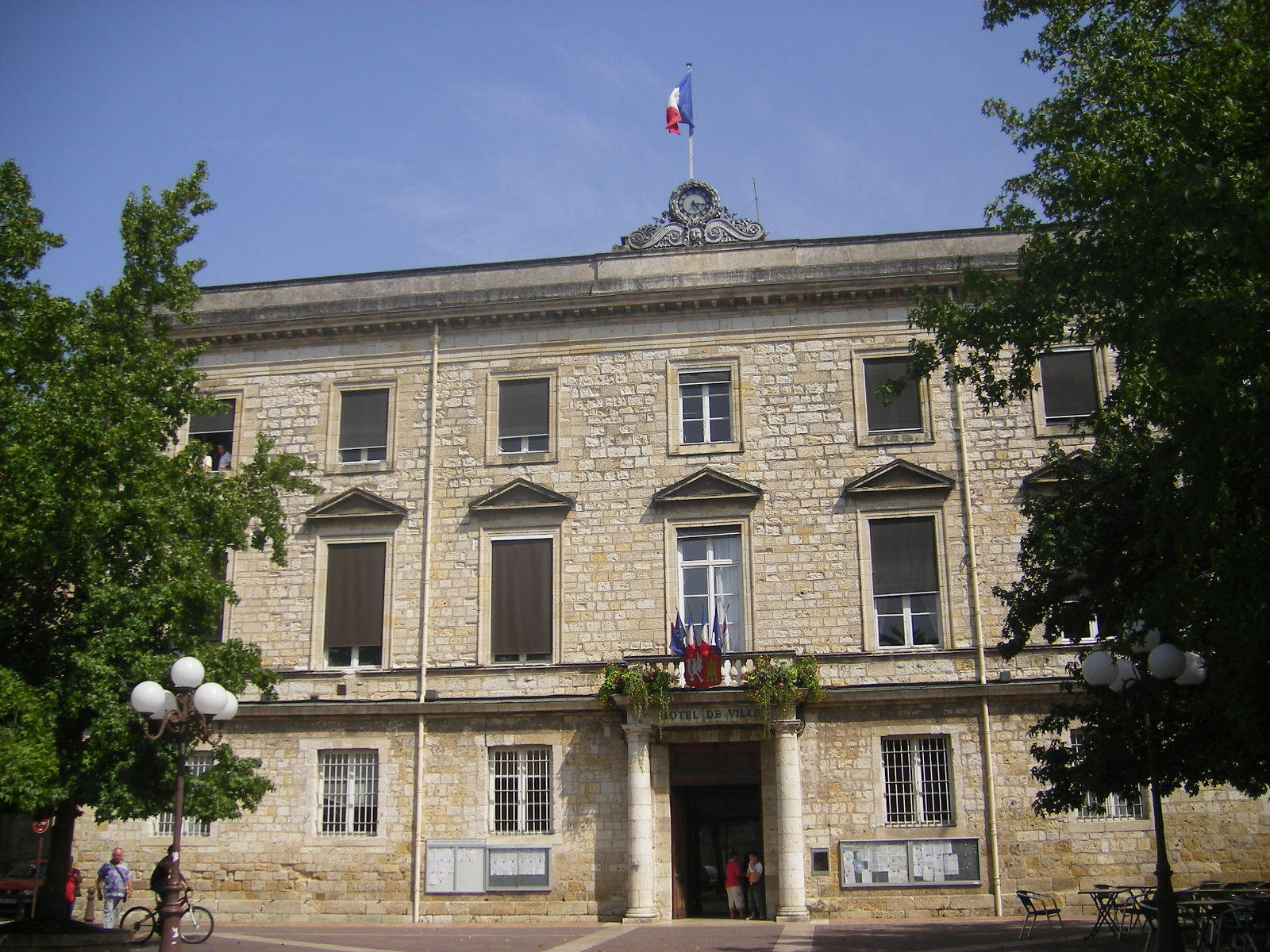 Agen - Town hall